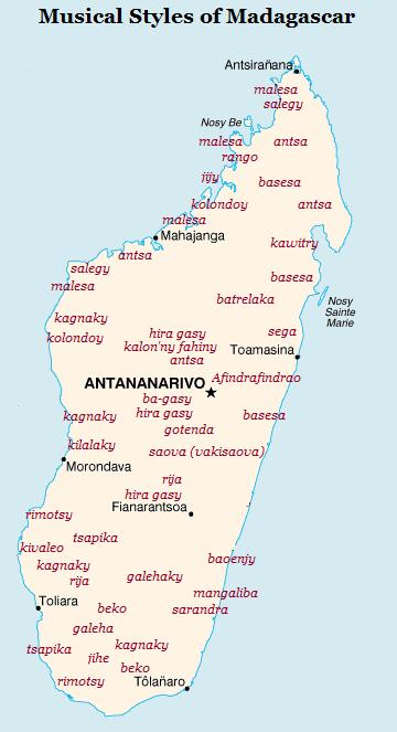 Musical styles of Madagascar. Lemurbaby (talk) 21:57, 21 November 2010 (UTC)